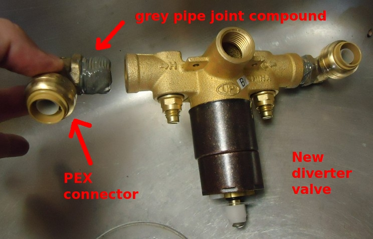 A handyman project to redo pipes behind the shower. I'm attaching PEX connectors. I paintbrush on the gray pipe joint compound, and then use a wrench to tighten the connections on securely. It means there is no soldering near the valve itself -- sometimes extreme heat can damage the diverter valve.